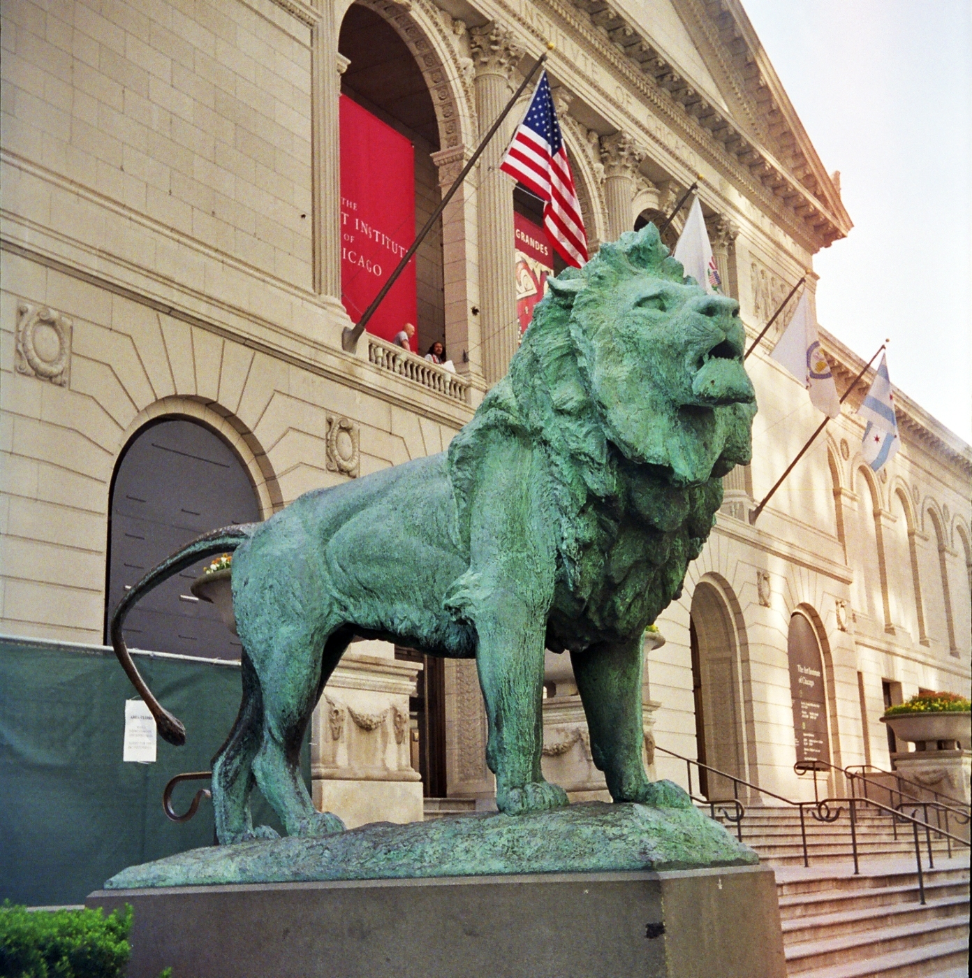 Left half of stereo photo pair of Edward Kemeys's lion statue outside the Art Institute of Chicago, in Illinois.